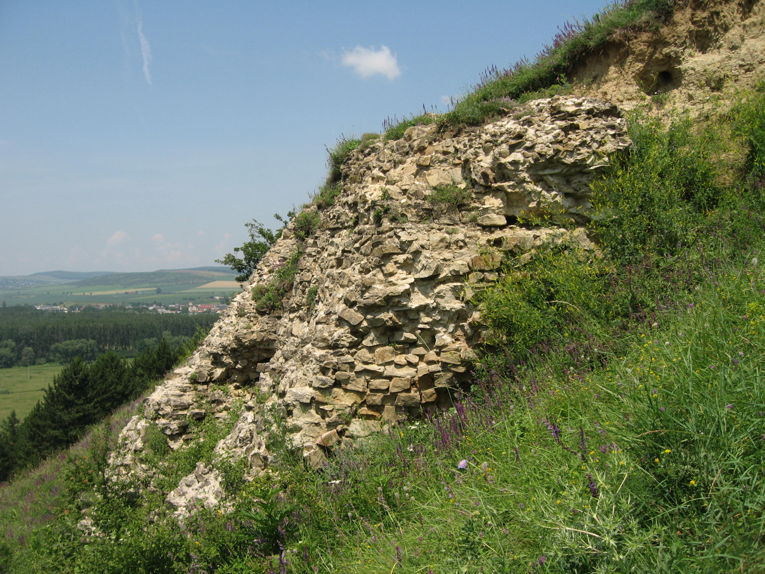 Șcheia Fortress (The Western Fortress of Suceava).